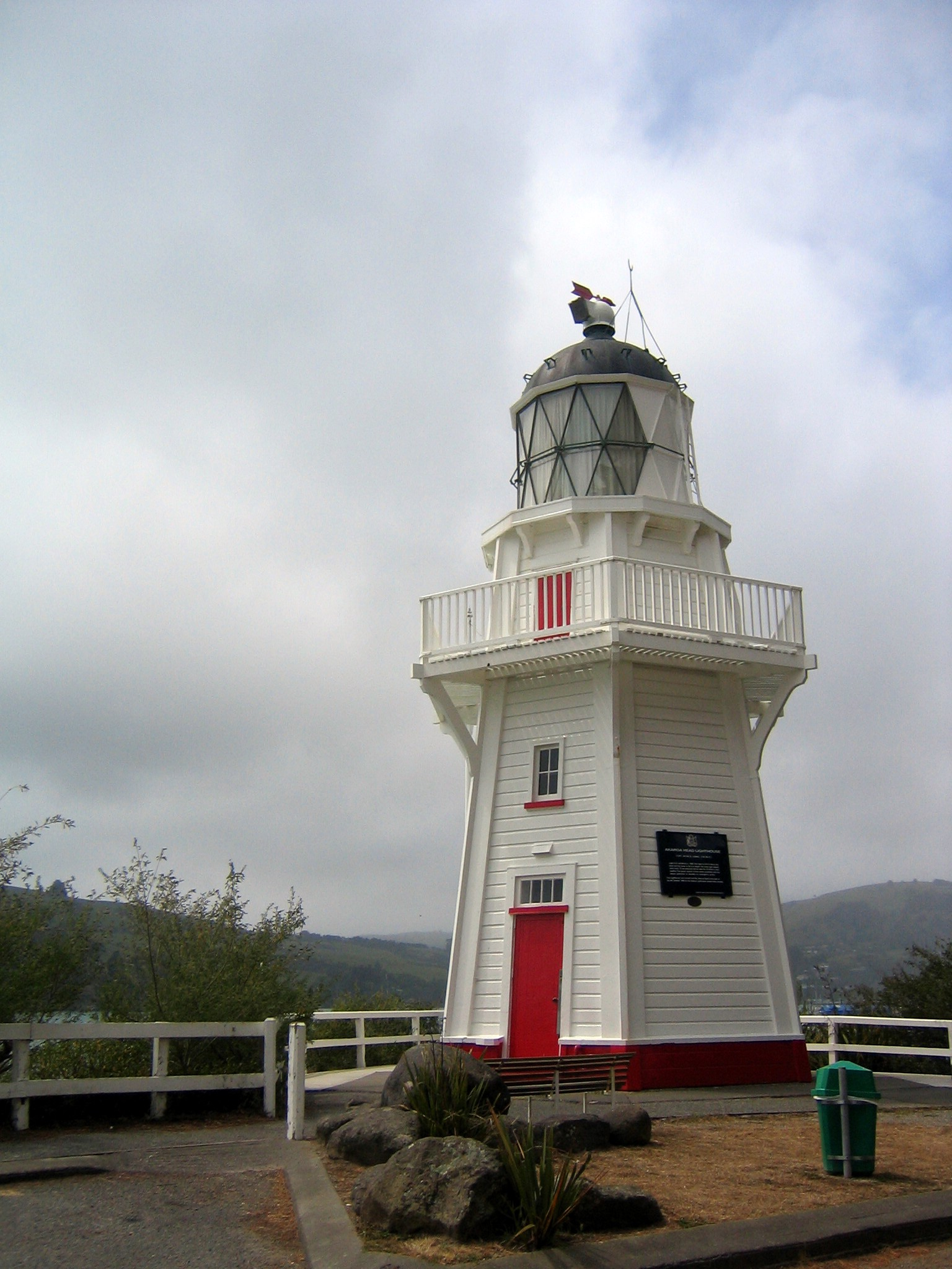 Akaroa Lighthouse, Canterbury, New Zealand. New Zealand Historic Places Trust Register number: 3343. Full description at